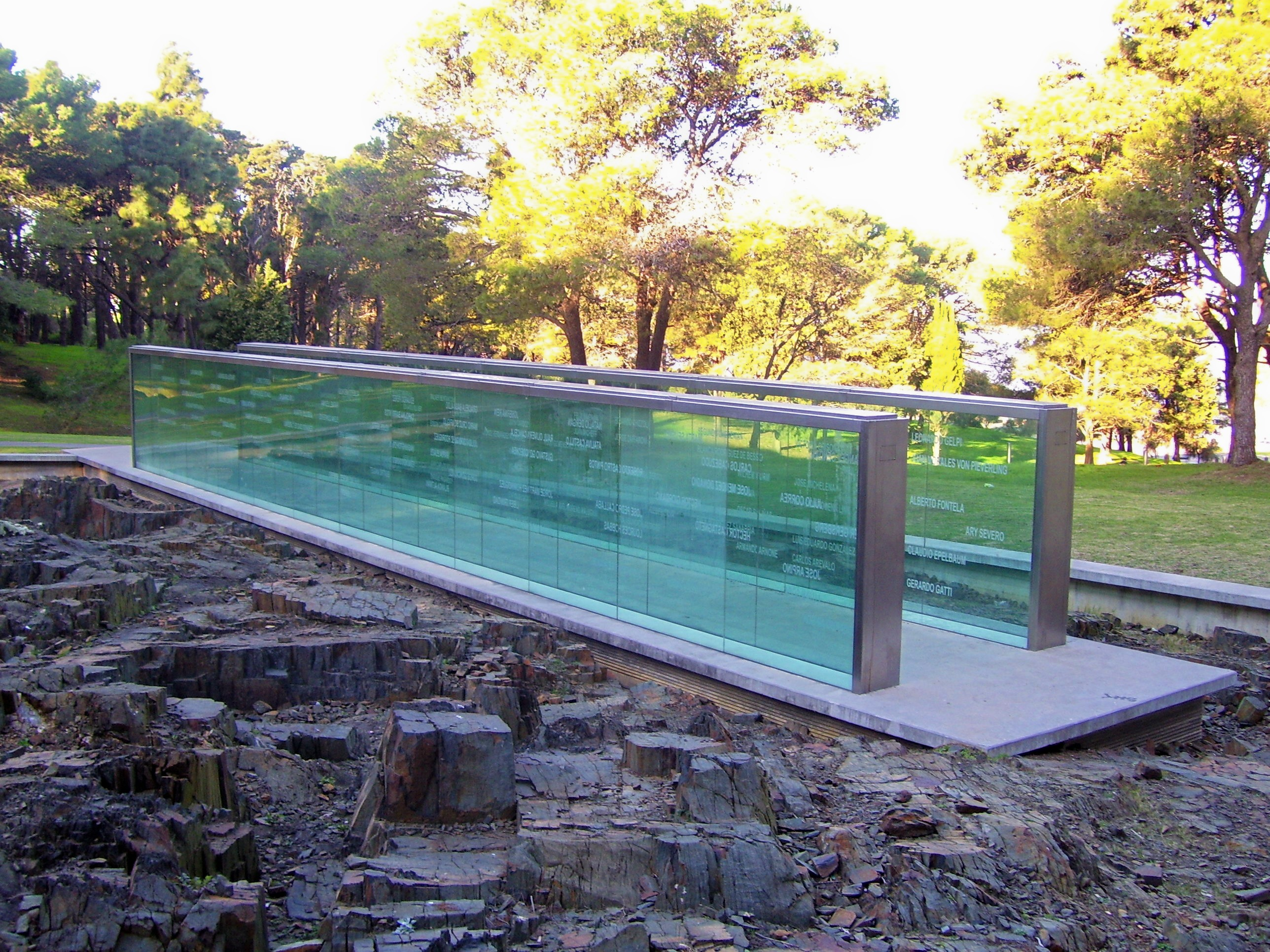 View of the Memorial of Disappeared Detainees during the Uruguayan military dictatorship (1973 - 1985), located in the Park Vaz Ferreira in the neighborhood of Villa del Cerro, Montevideo, Uruguay.